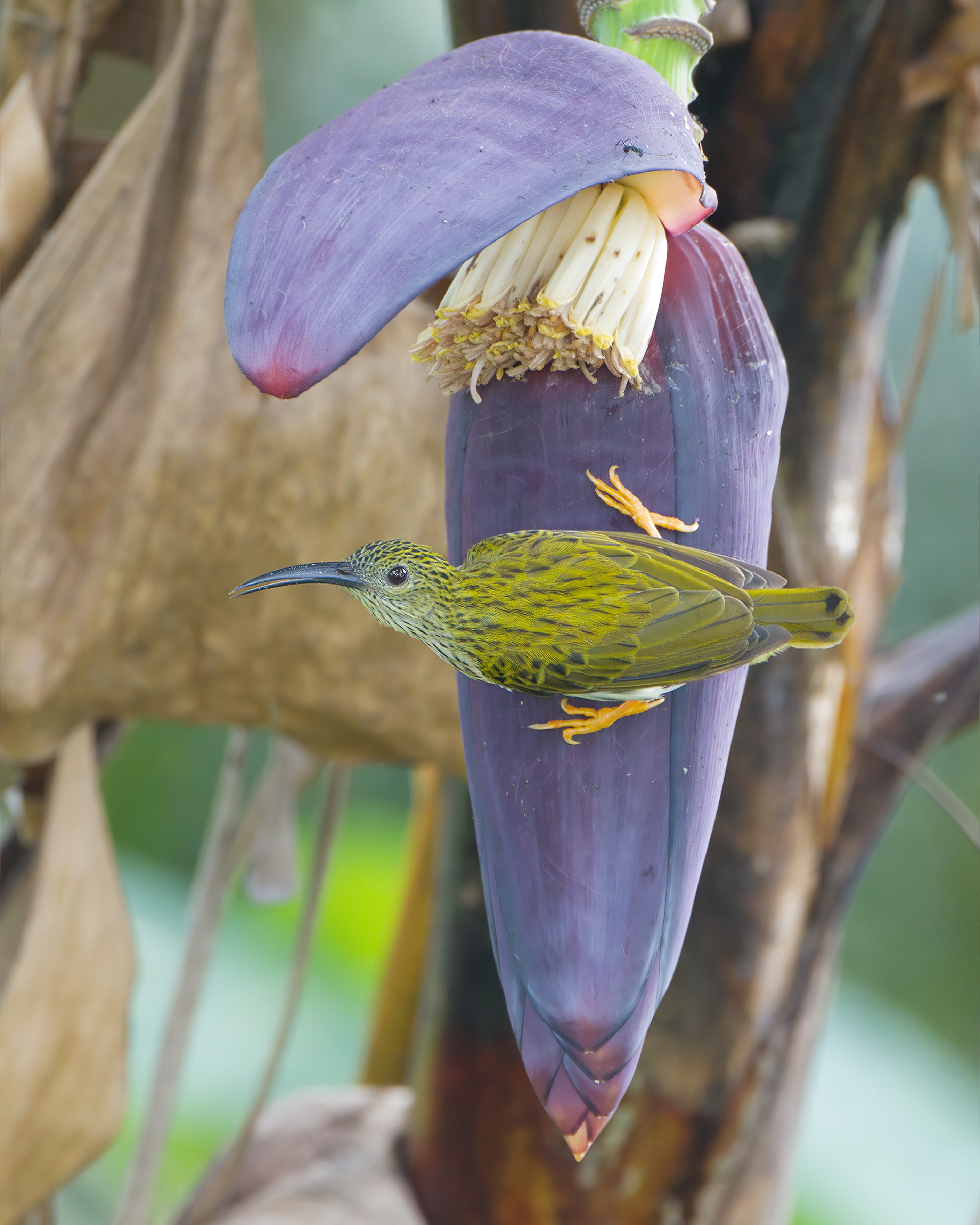 Streaked Spiderhunter (Arachnothera magna), Kaeng Krachan National Park, Phetchaburi, Thailand